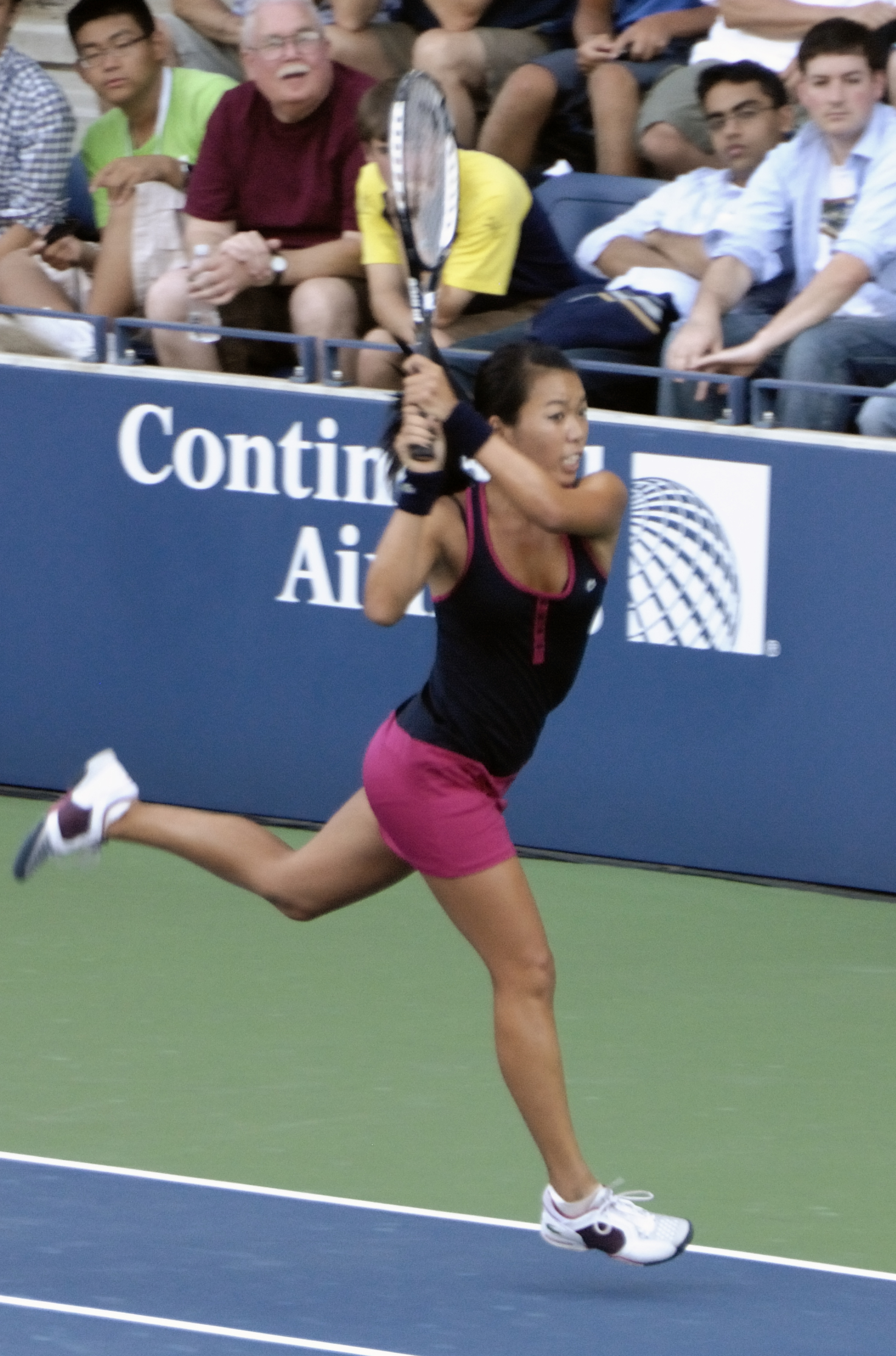 Vania King at the 2009 US Open